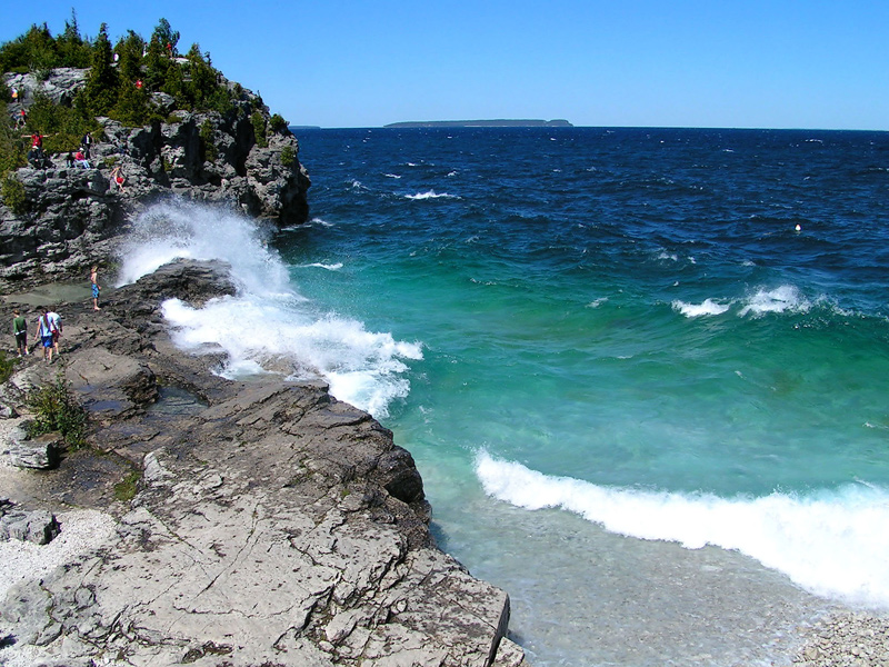 Bruce Peninsula National Park, Ontario, Canada. On the shore of the Georgian Bay. The islands of the Fathom Five National Marine Park can be seen at the horizon.